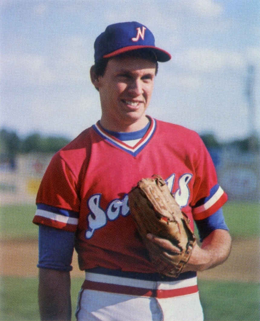 Pitcher Geoff Combe of the 1979 Nashville Sounds Minor League Baseball team of the Southern League